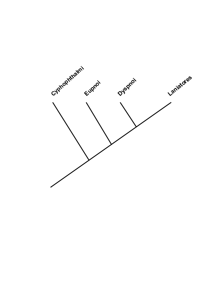 Show the relationships between different groups among Opiliones